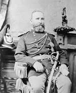 Photograph of First Lieutenant William R. Parnell, Company H, First Cavalry.